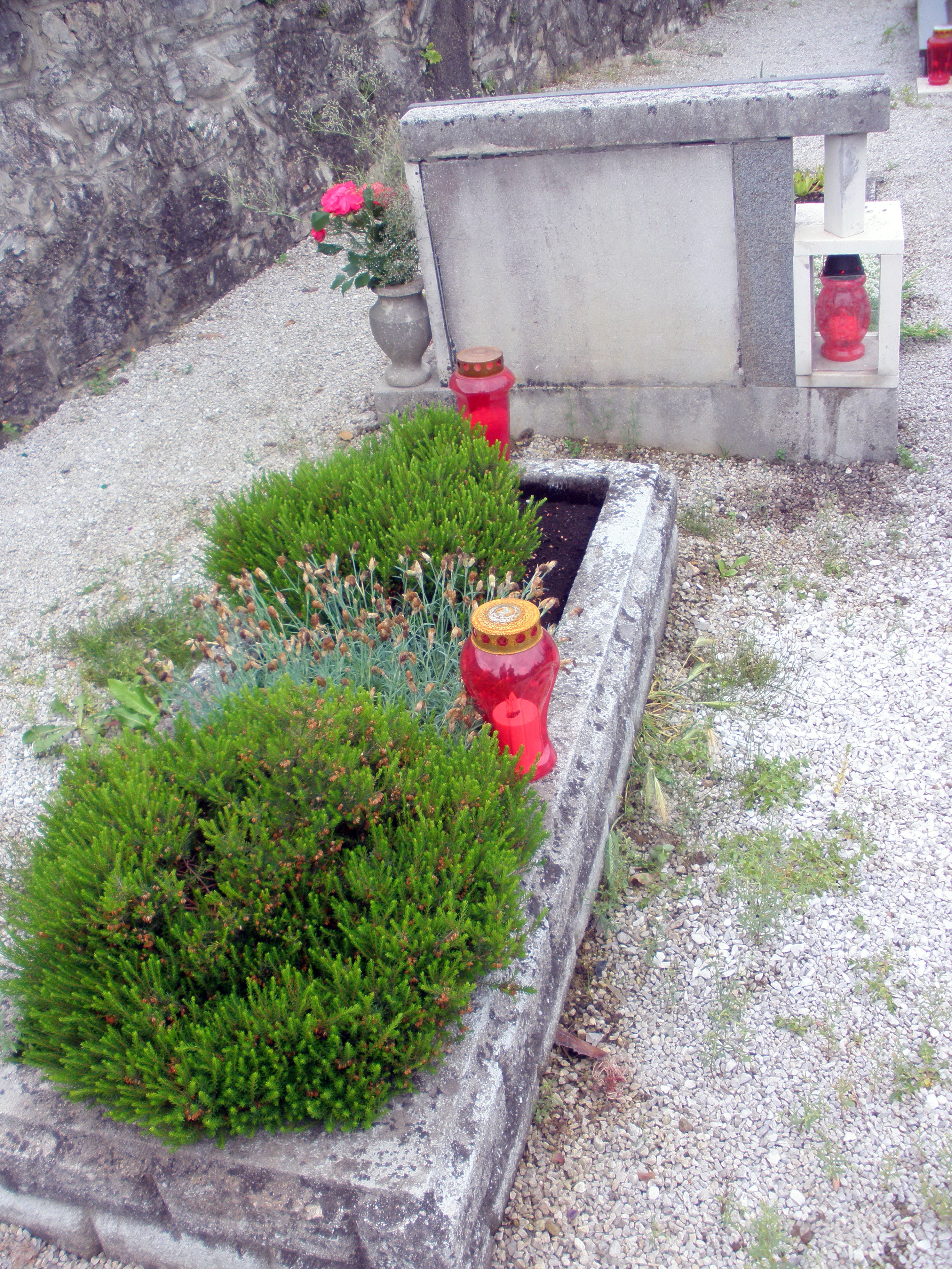 Ignote tomb on cemetery of Šentrupert in Slovenia, maybe tomb of Metod Trobec